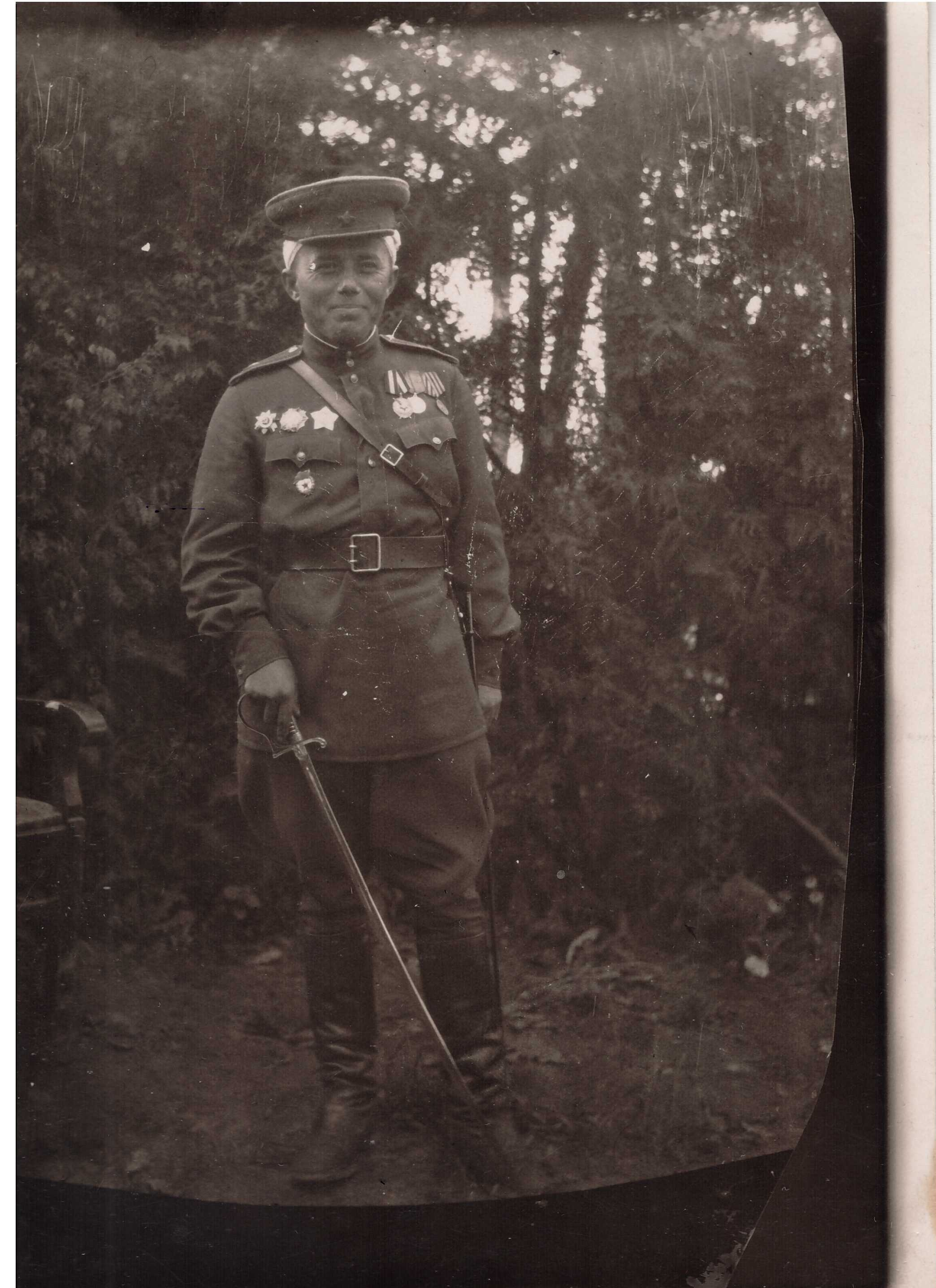 1945 pr